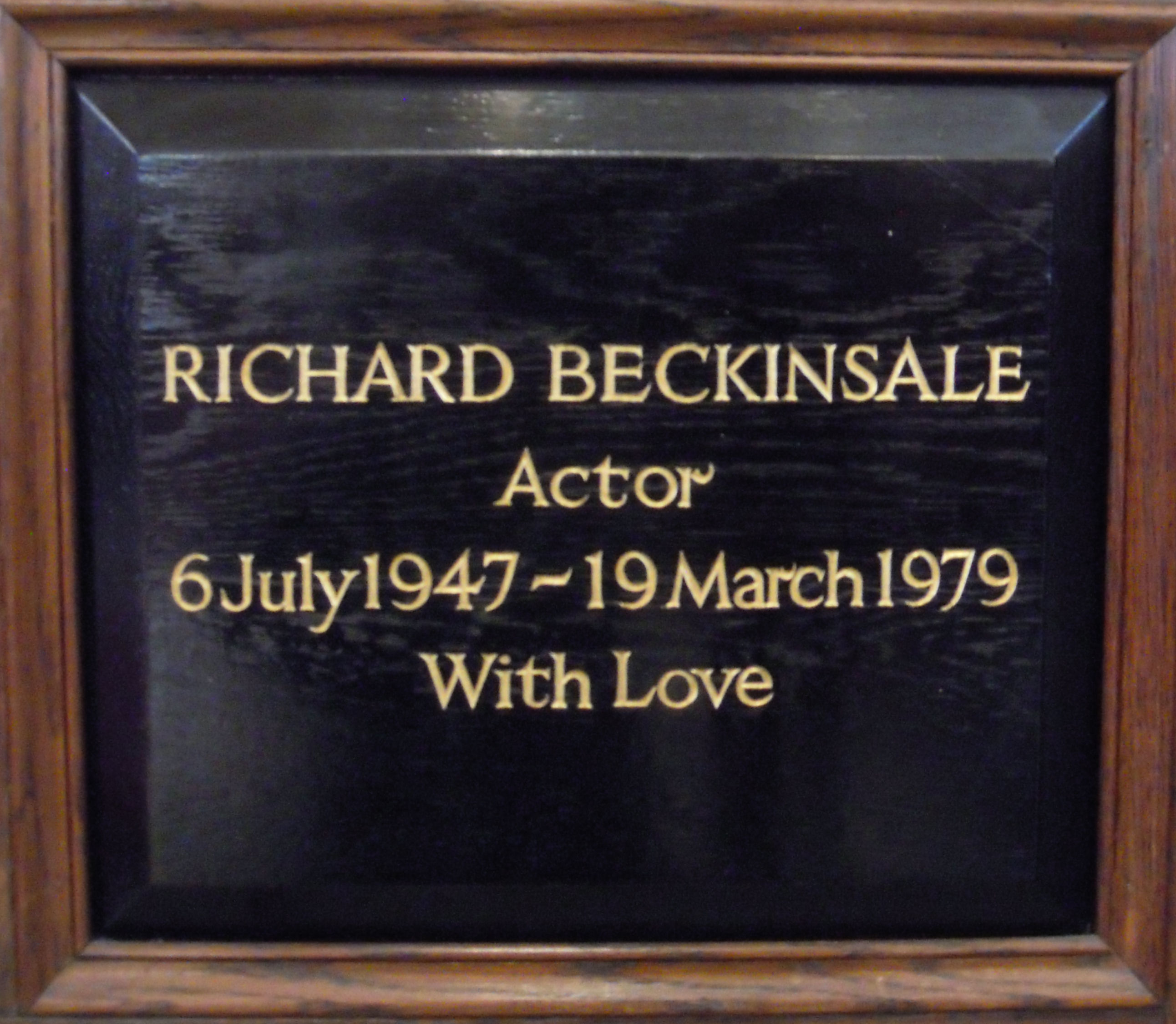 Memorial plaque to actor Richard Beckinsale (1947-1979) in St Paul's church in Covent Garden